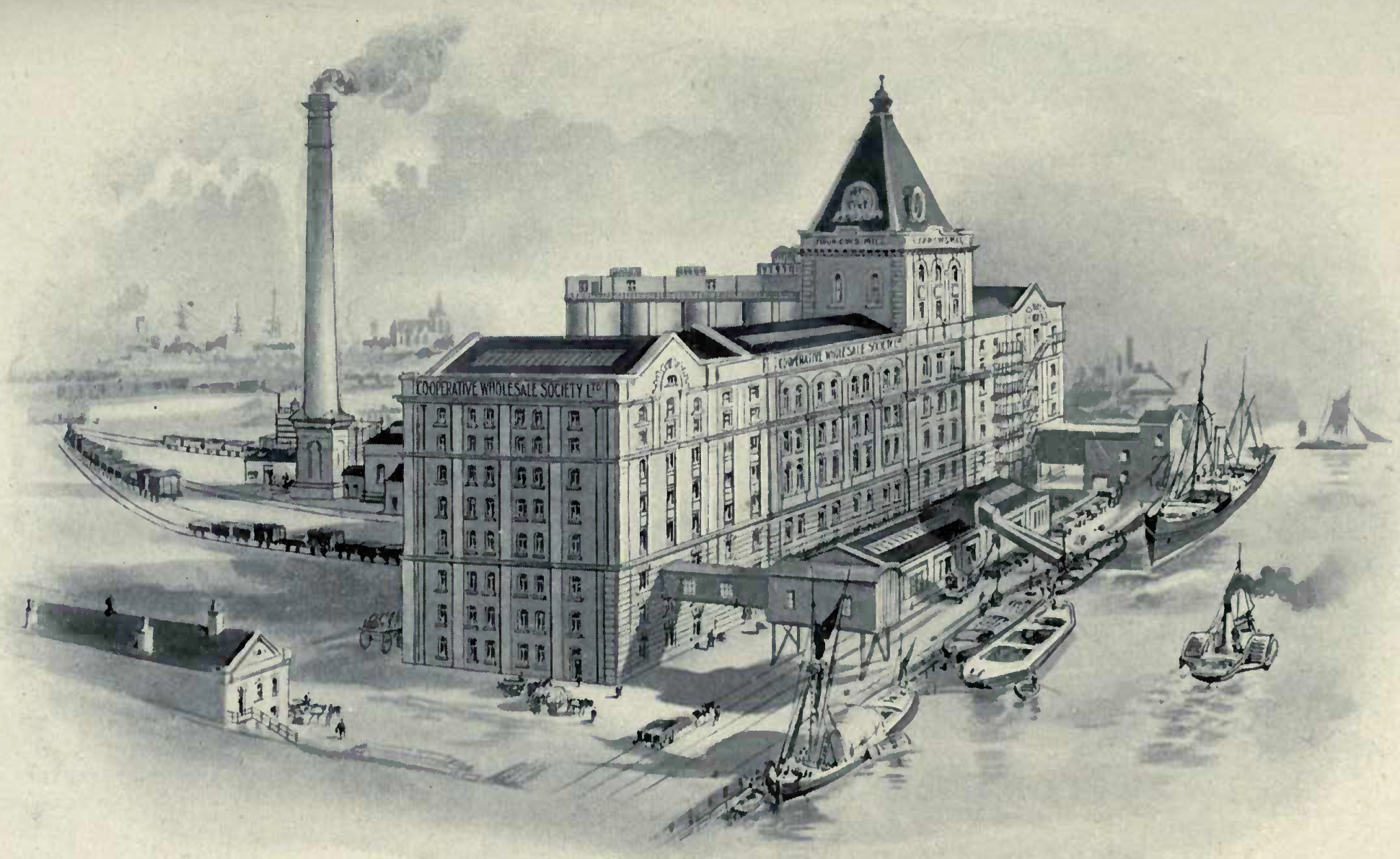 Image of the Co-operative Wholesale Society (CWS) flour mill in Silvertown, London, England at the Royal Victoria Dock. It is believed to show the factory as it looked in 1915.